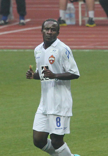 Seydou Doumbia